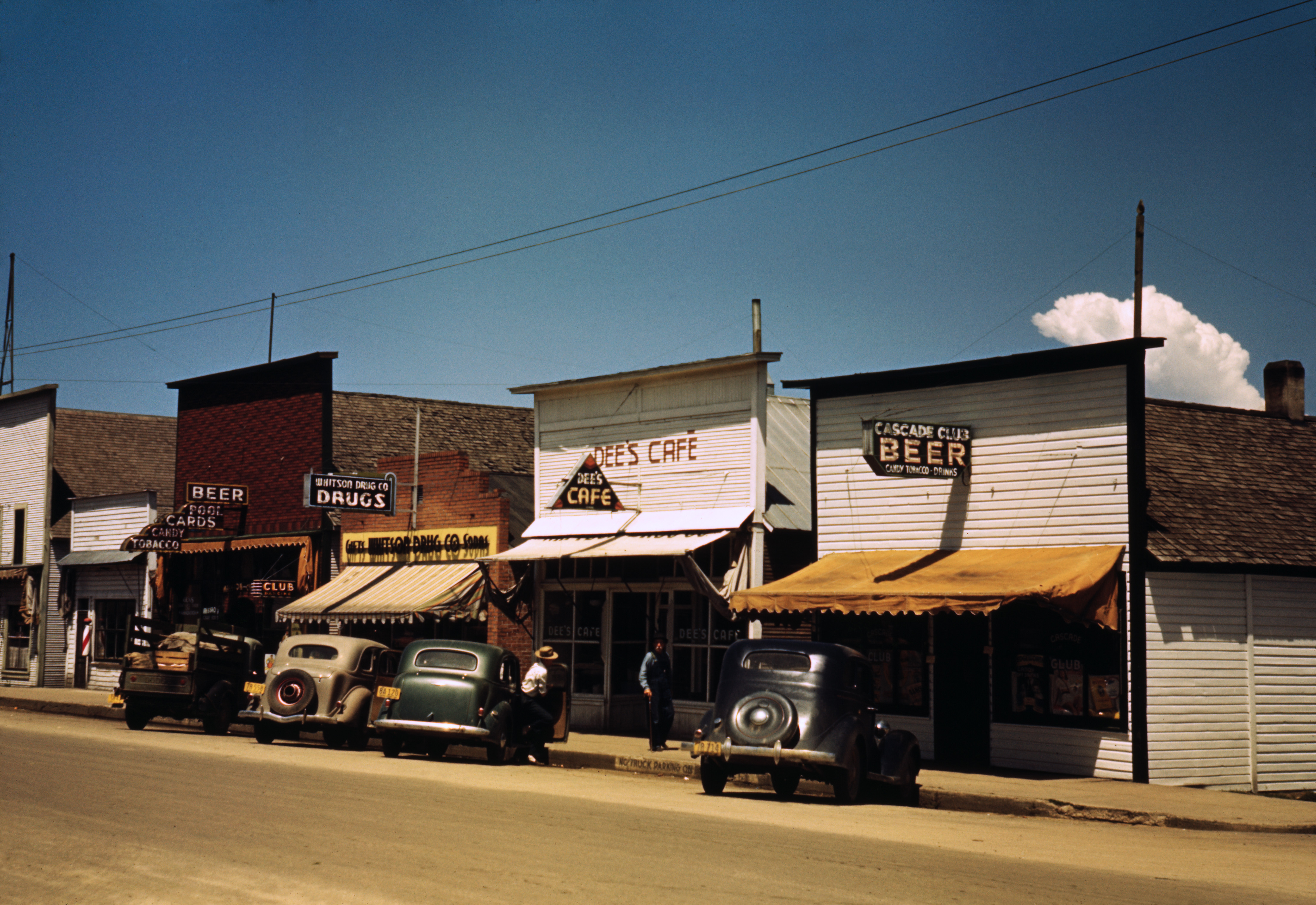 On main street of Cascade, Idaho.